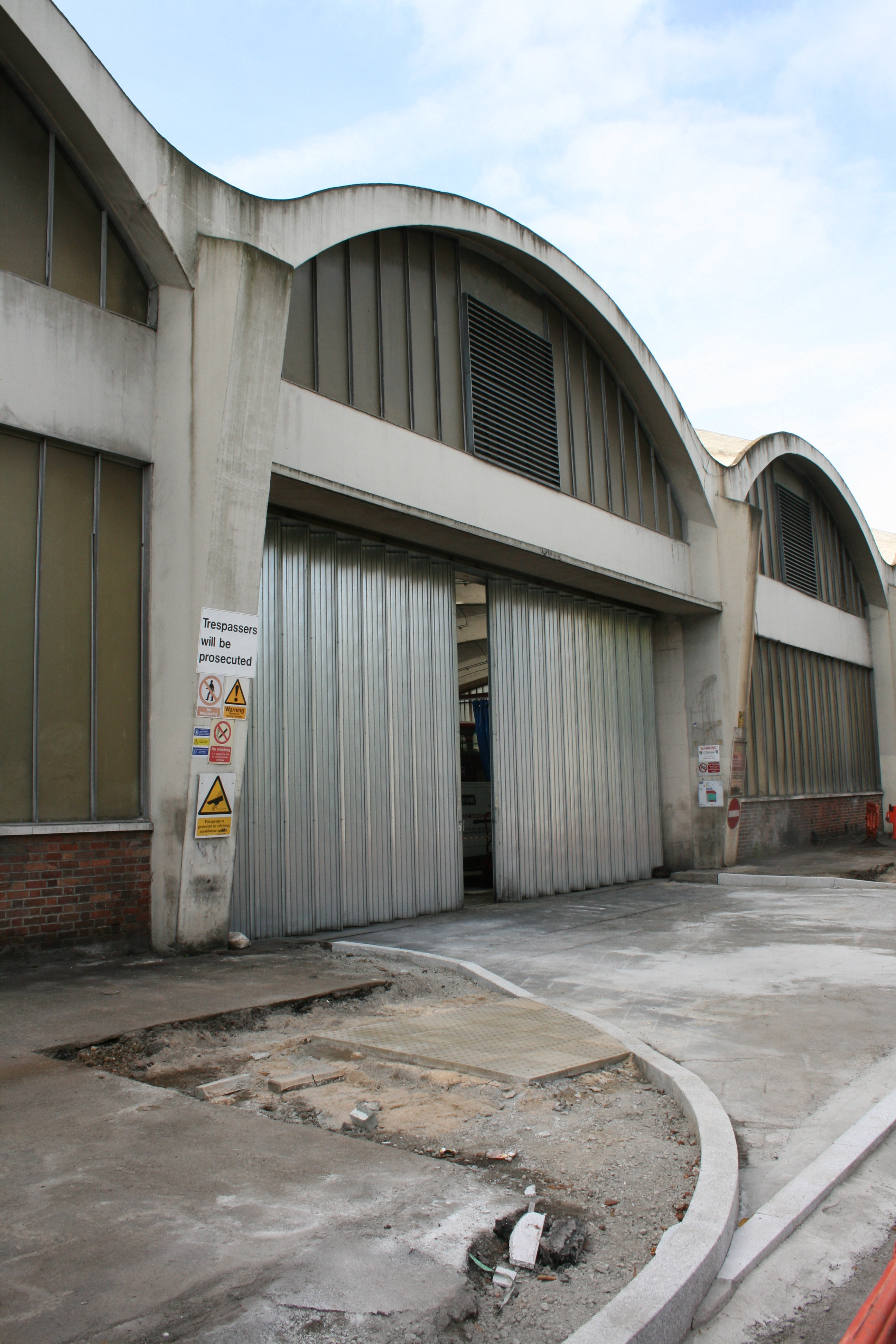 Stockwell Bus Garage